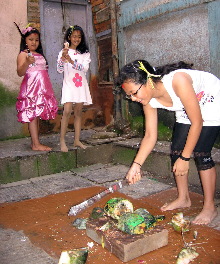 Girls chop up an ash gourd symbolising the destruction of evil during Mohani festival in Kathmandu. Nepal.